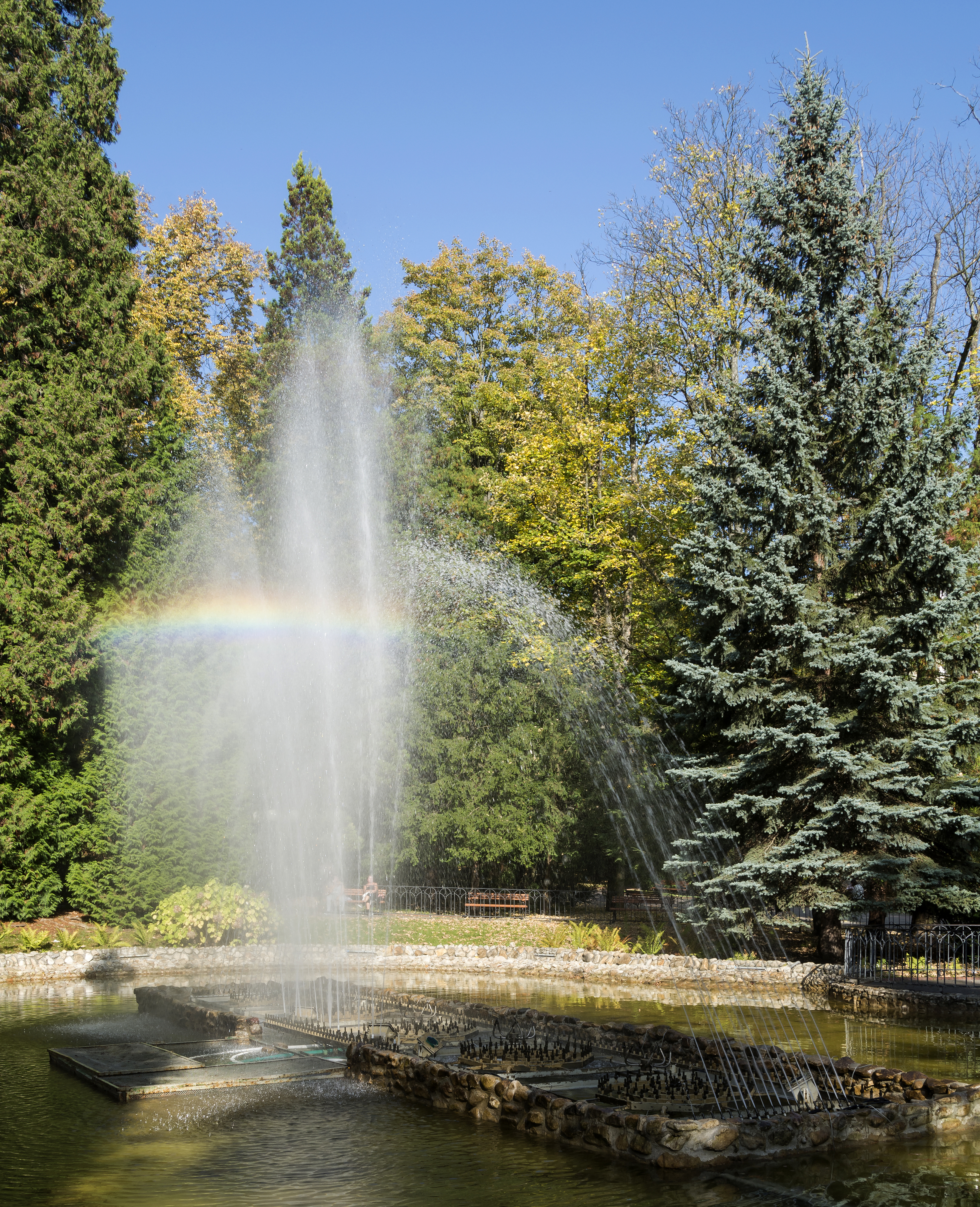 Spa park in Polanica-Zdrój, fountain